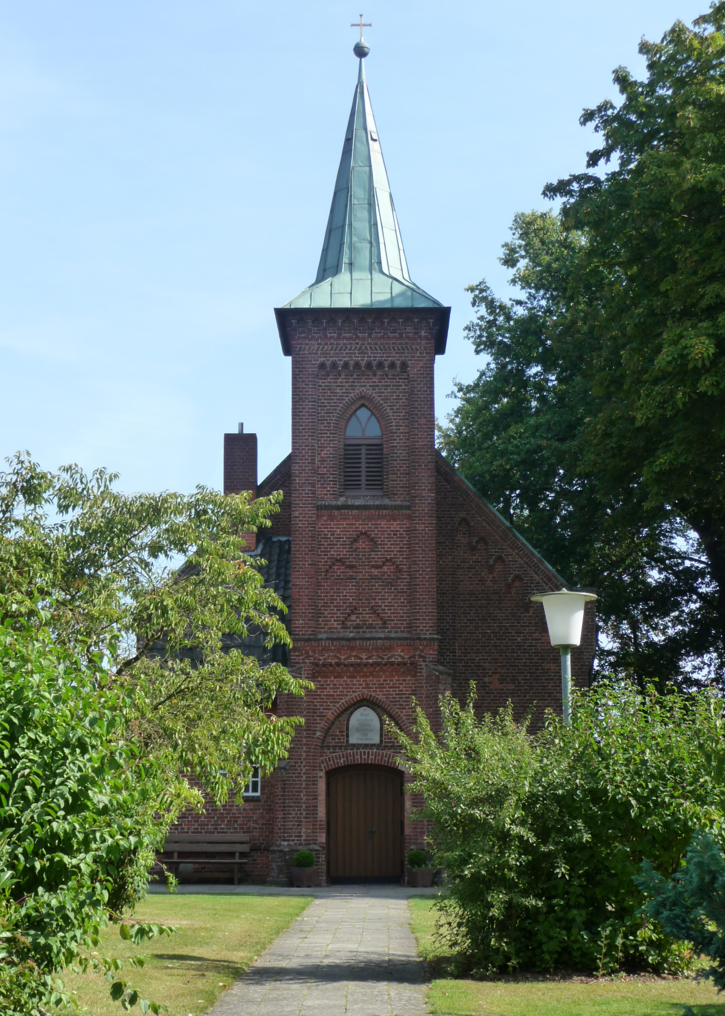 Zion Church in Soltau